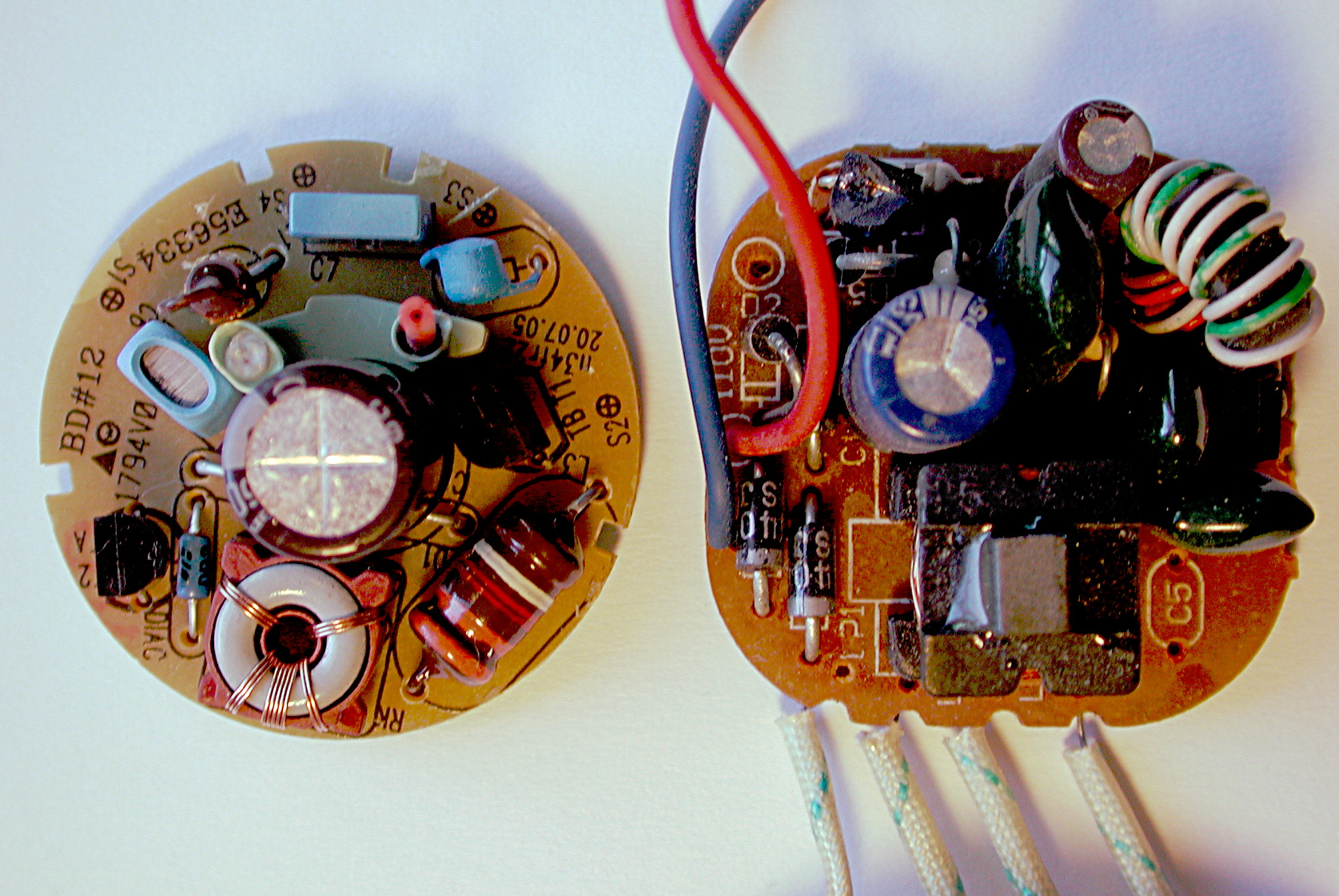 Ballast of an very cheap (bad) and an modern CFL